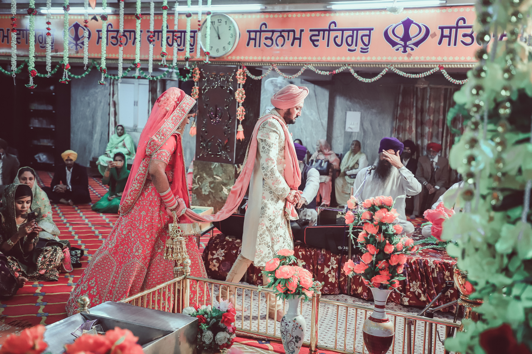 This photo has been taken in the country: India